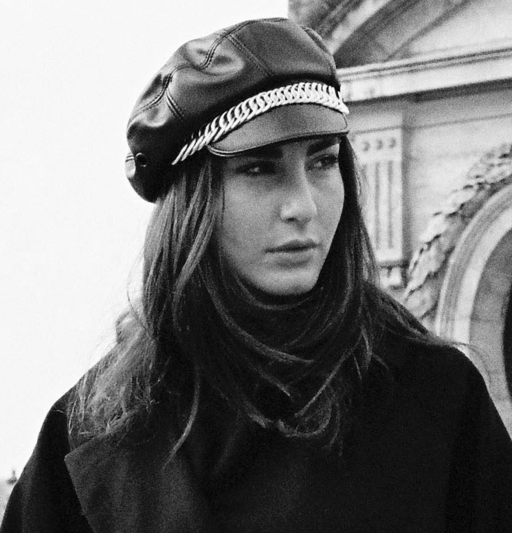 Ece Sukan